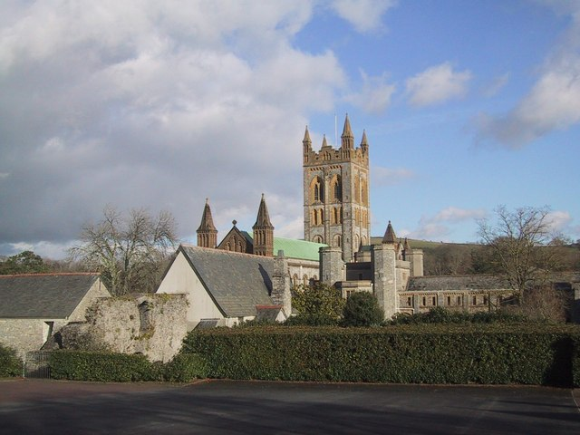 Buckfast Abbey